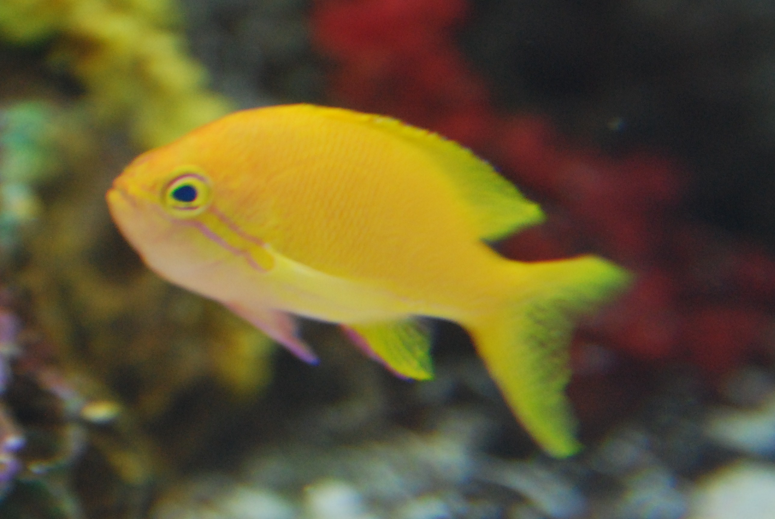 Female squareback anthias, Pseudanthias pleurotaenia, with orange coloration, at Seattle Aquarium.